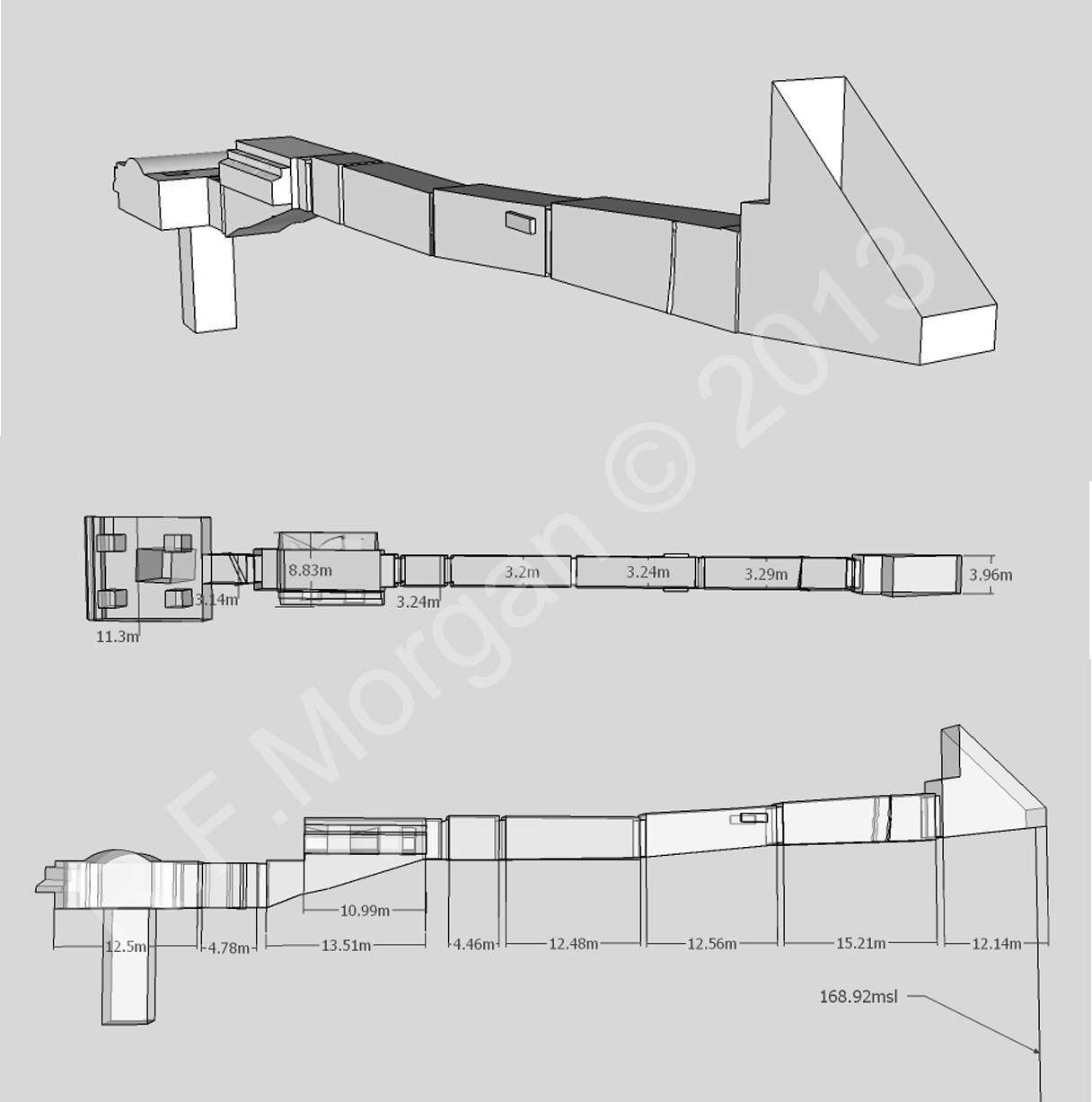 Isometric, plan and elevation images of KV4 taken from a 3d model